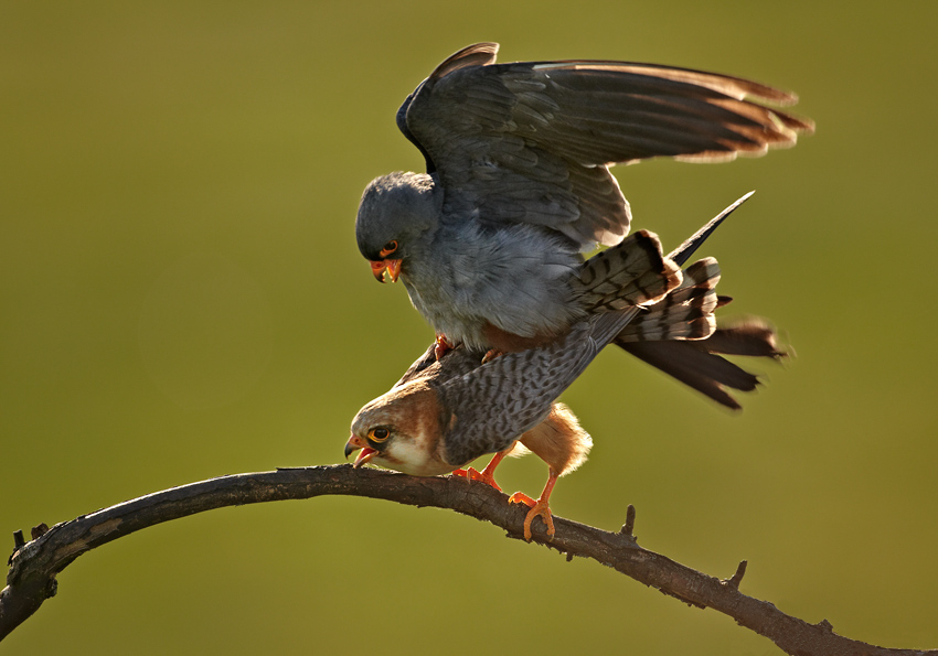 Falco vespertinus - mating; Hungary